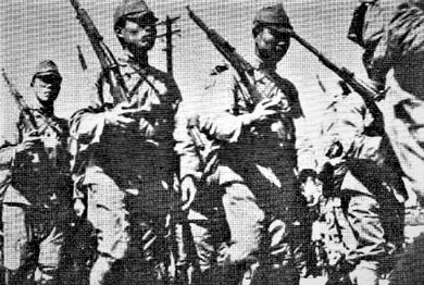 The 35th regiment moving to Okinawa